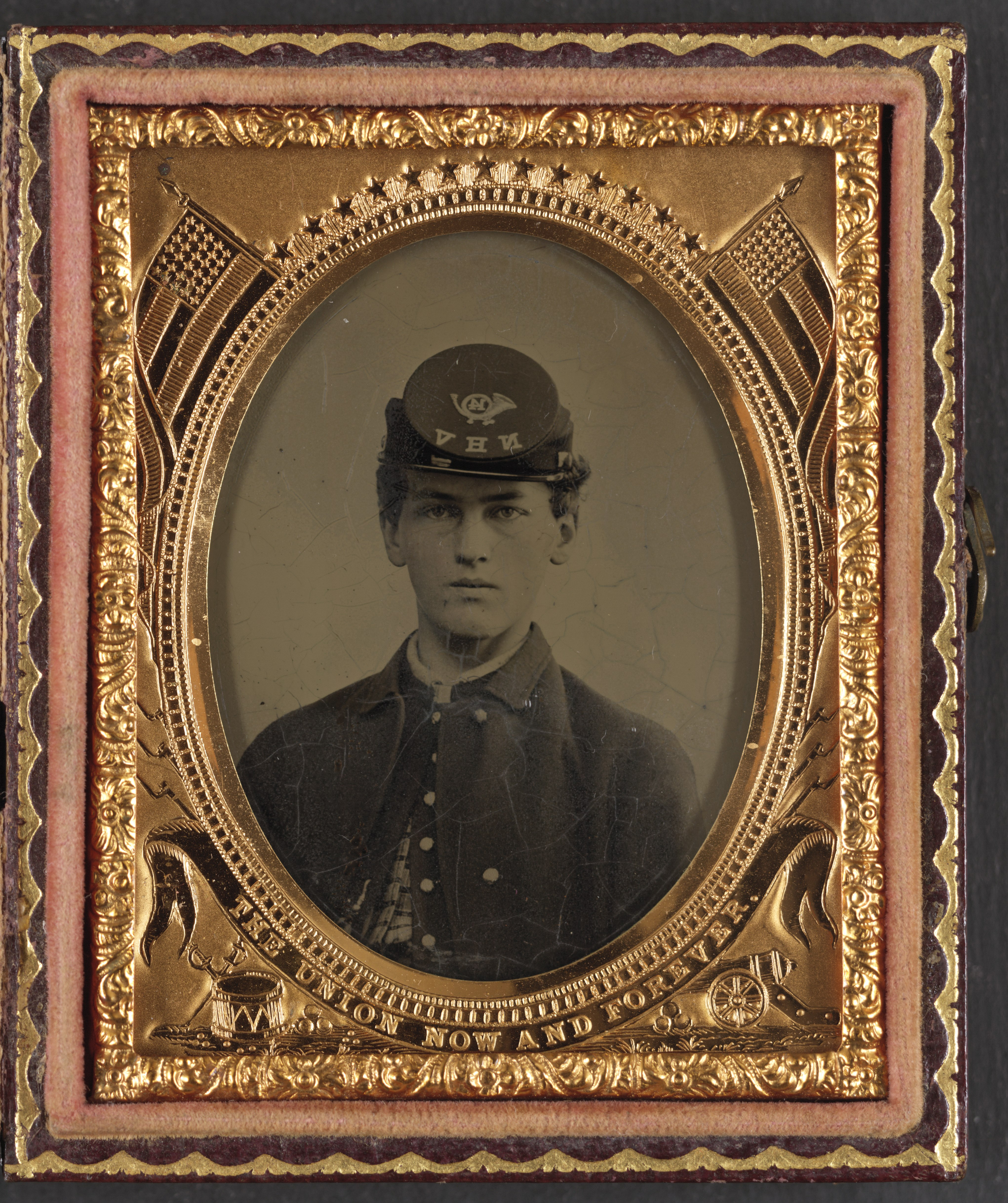 Title: Unidentified soldier in Union uniform and 14th New Hampshire Infantry Regiment kepi Abstract/medium: 1 photograph : ninth-plate tintype ; 7.4 x 6.1 cm (case)